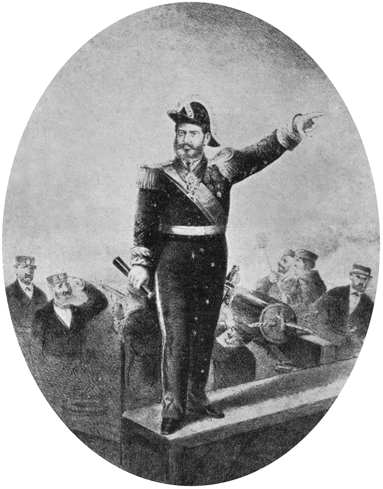 A rare picture of the Viscount of Inhaúma dressing the uniform of Admiral, the highest rank in imperial Brazil.